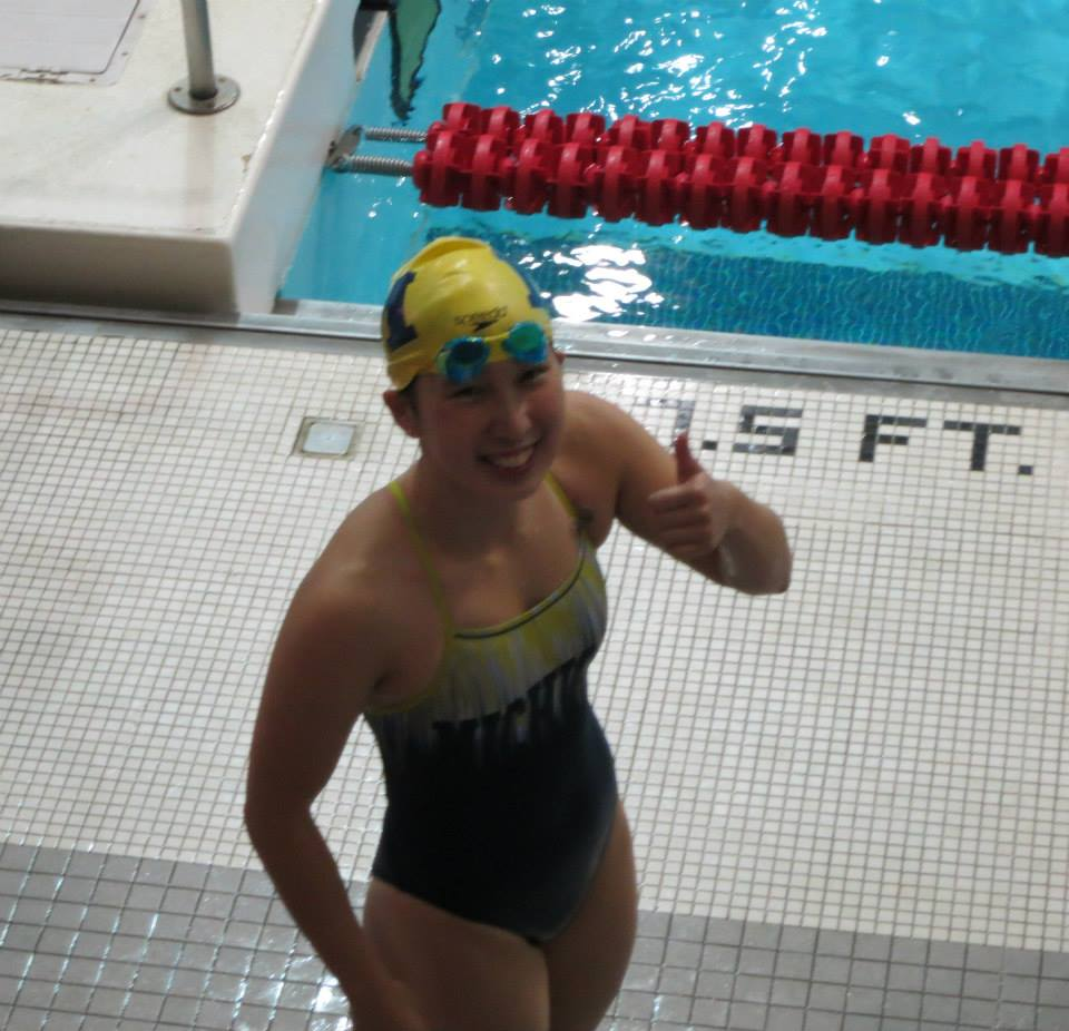 Claudia thumbs up after swimming for UM